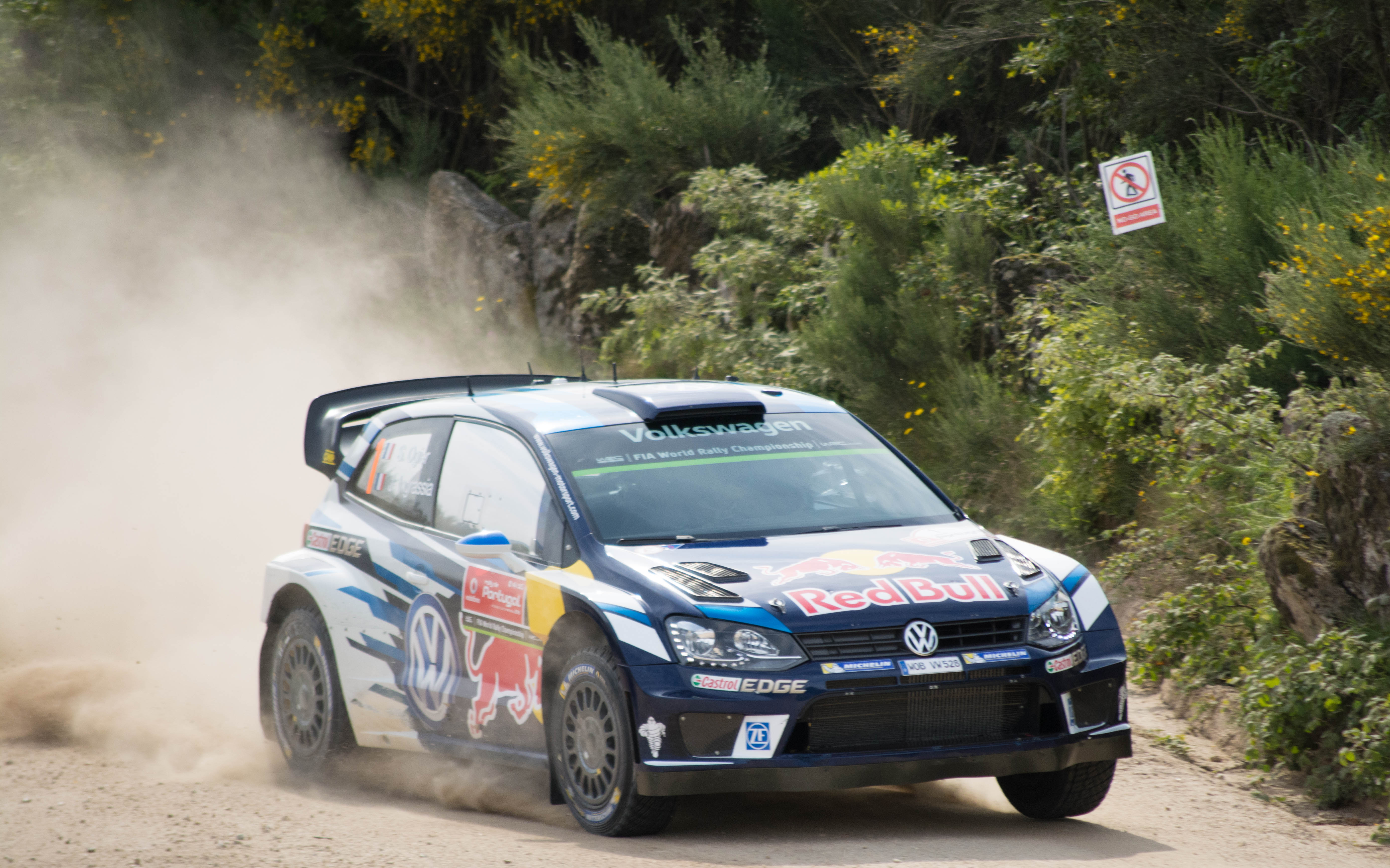 Rally of Portugal 2016. Section of "Baião", on the first pass